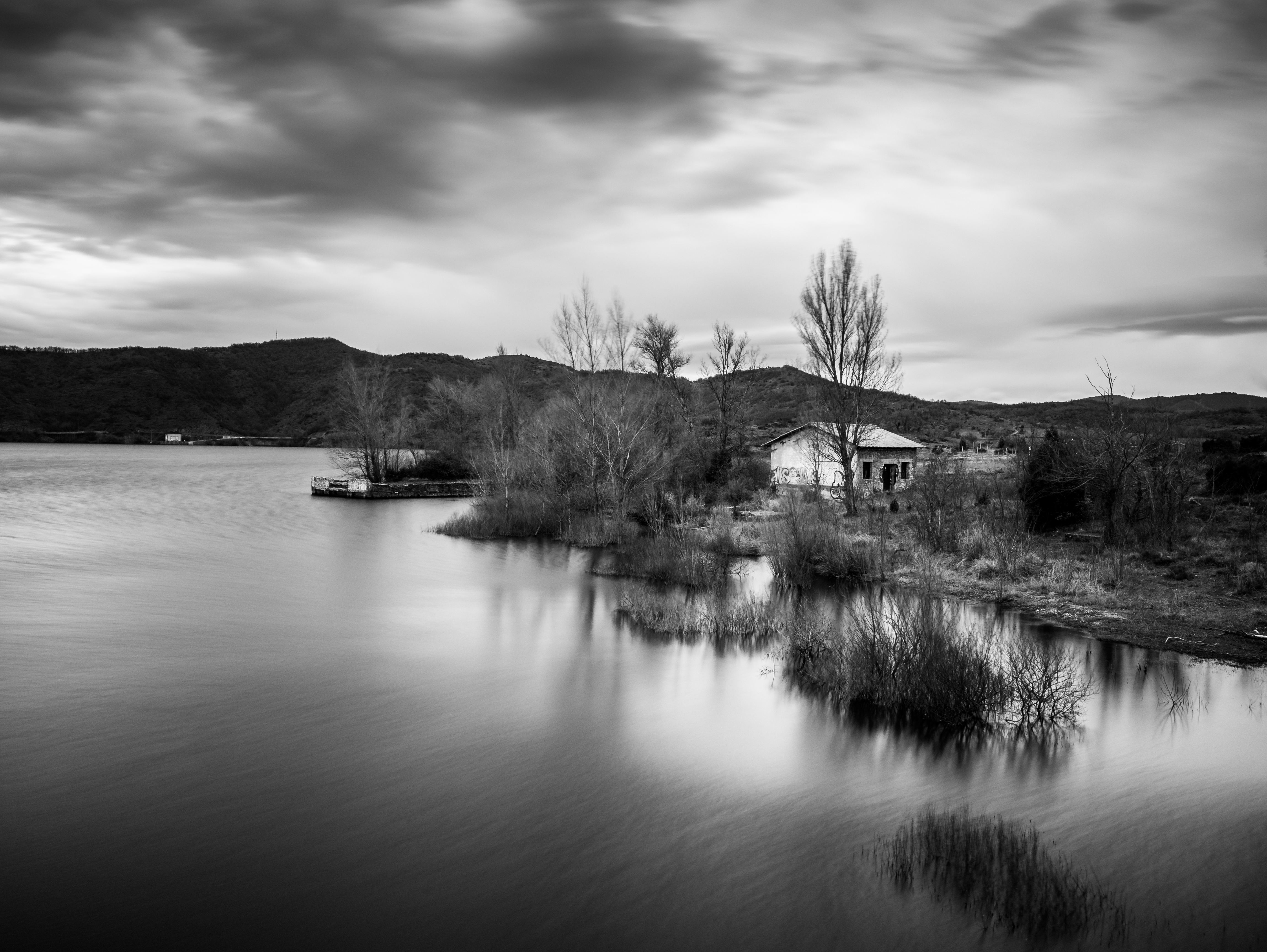 The Ullíbarri-Gamboa Reservoir, as seen from the concrete dam. Álava, Basque Country, Spain